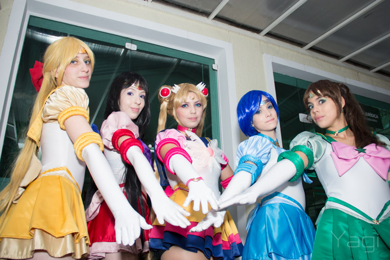 Cosplay of sailor moon